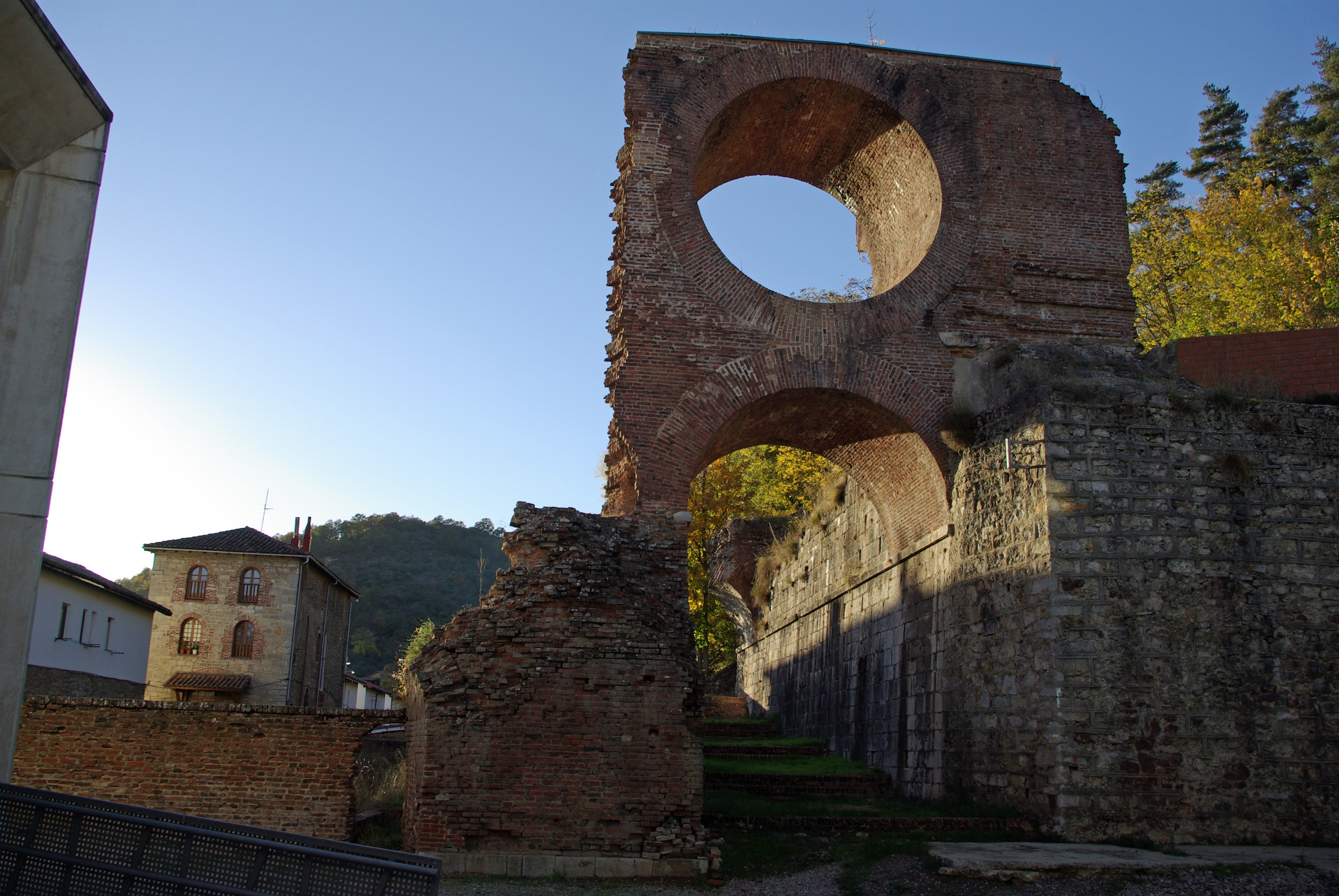 Blast furnace ruins in Sabero (León, Spain). It's part of Ferrería de San Blas (Ironwork of Saint Blaise), which was the first ironwork in Spain, 1846. Its blast furnace worked with coke and the building was made in a neogothic style. Nowadays it is the Museo de la Siderurgia y la Minería de Castilla y León headquarters